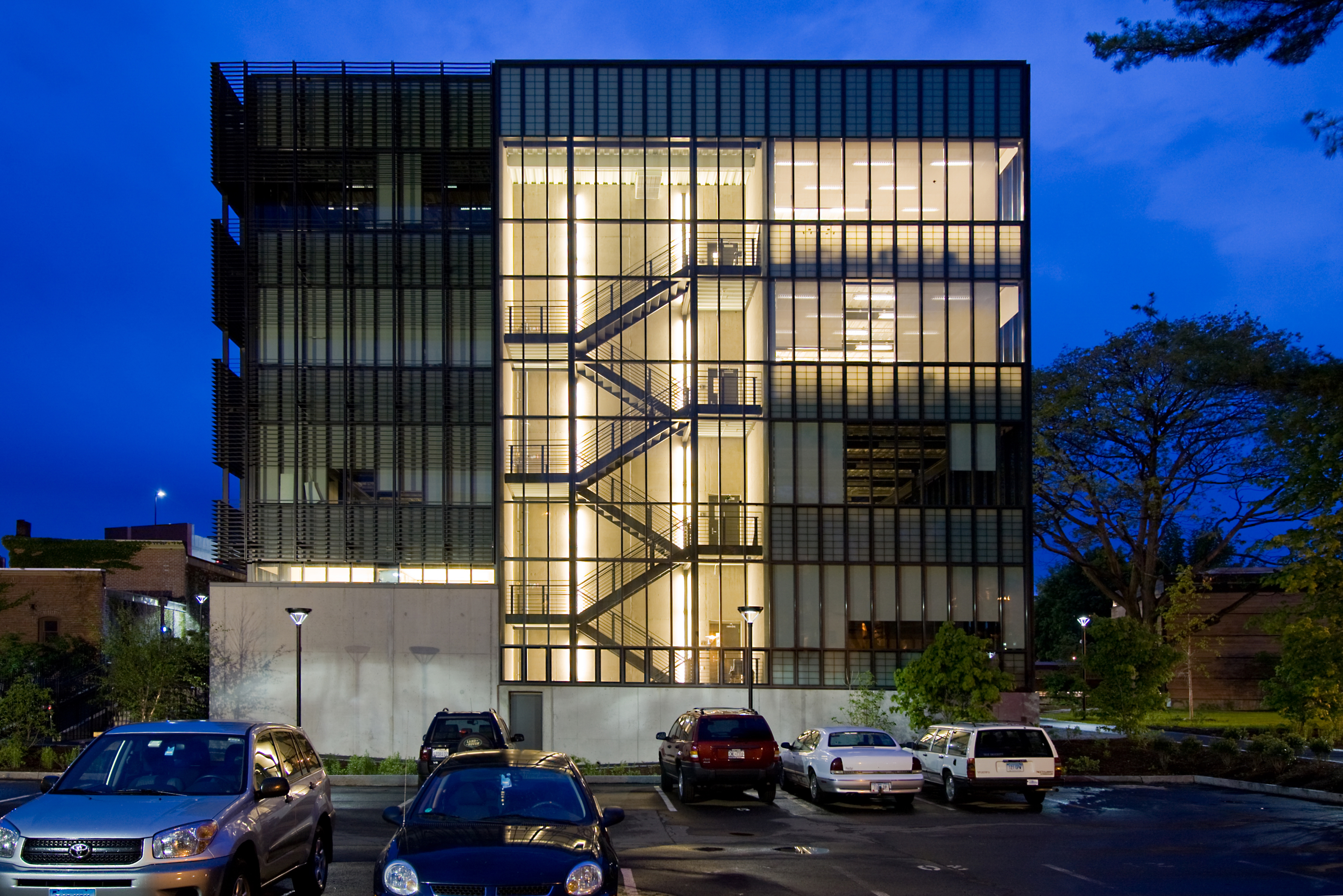 Yale Sculpture Building. Architects: KieranTimberlake